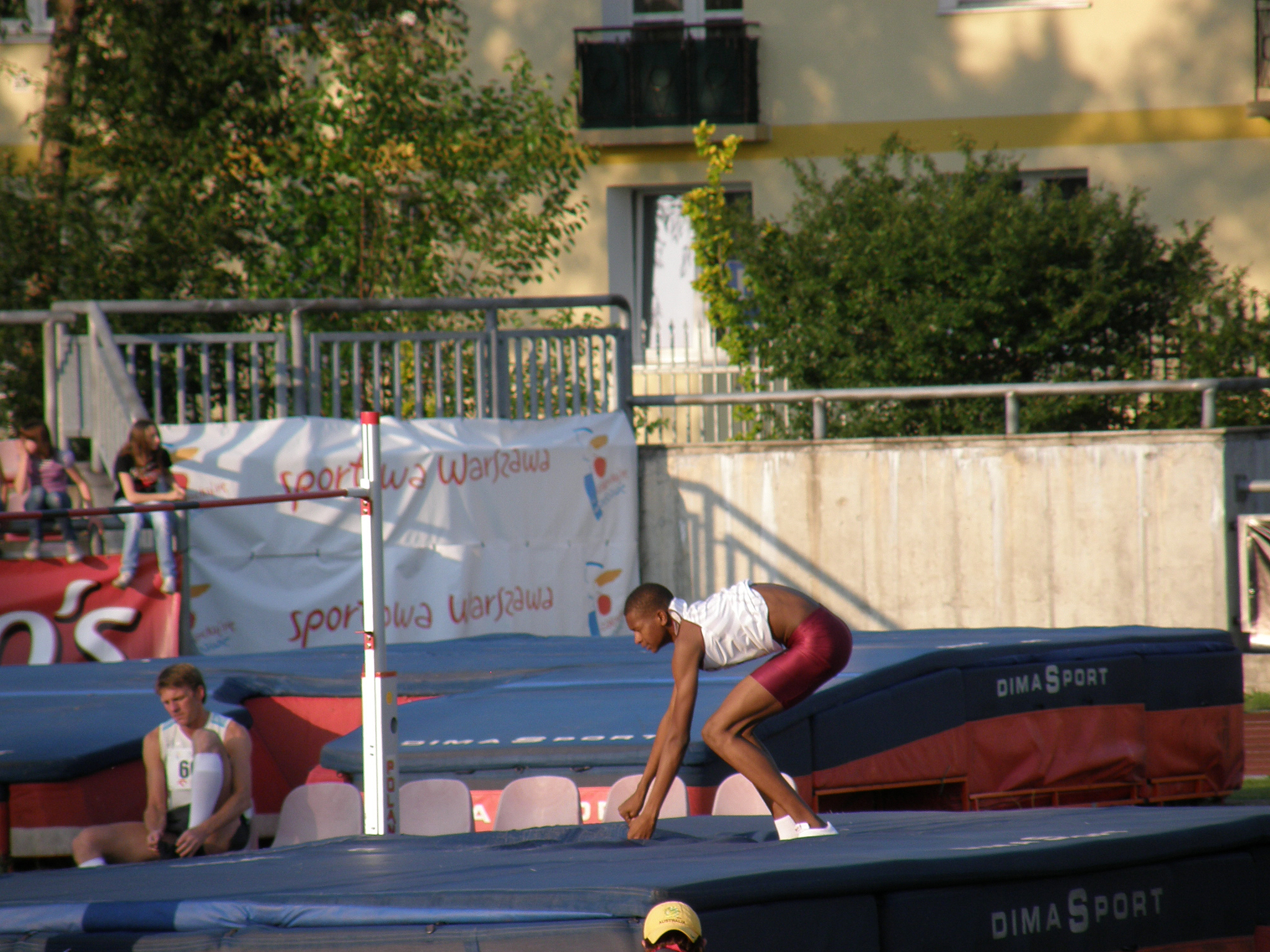 Mutaz Essa Barshim - 2010 Janusz Kusociński Memorial in Warsaw (Poland)